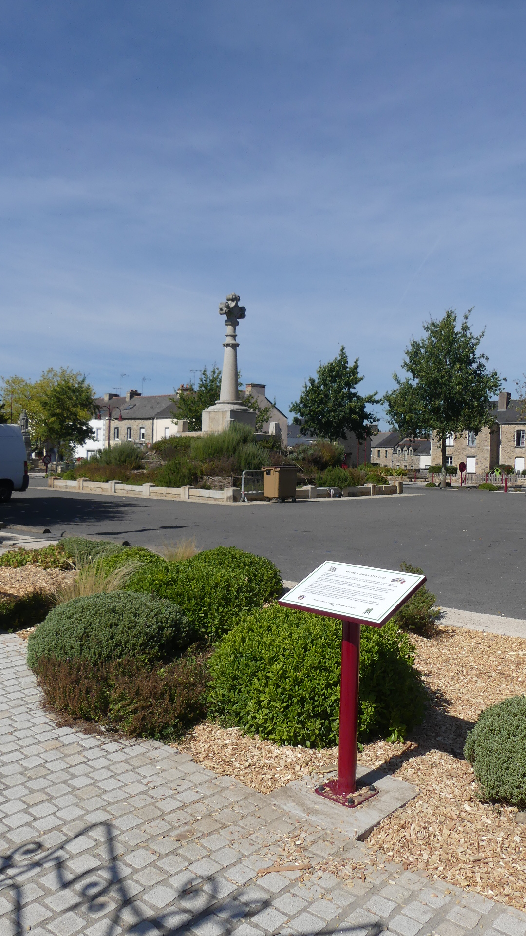 Commemorative panel of baptism of Michel Saindon on December 2, 1715 in Bains-sur-Oust